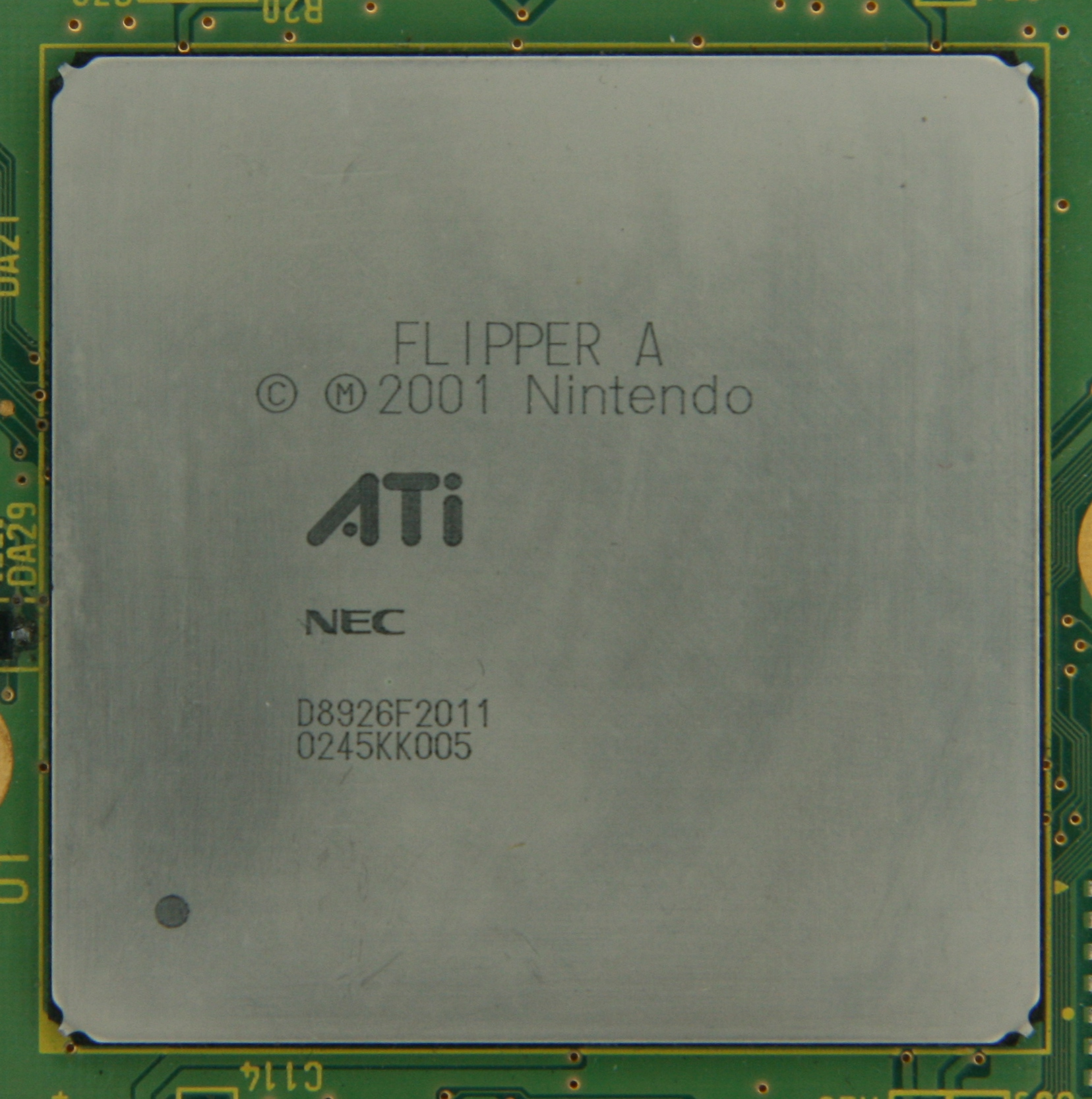 IC photo